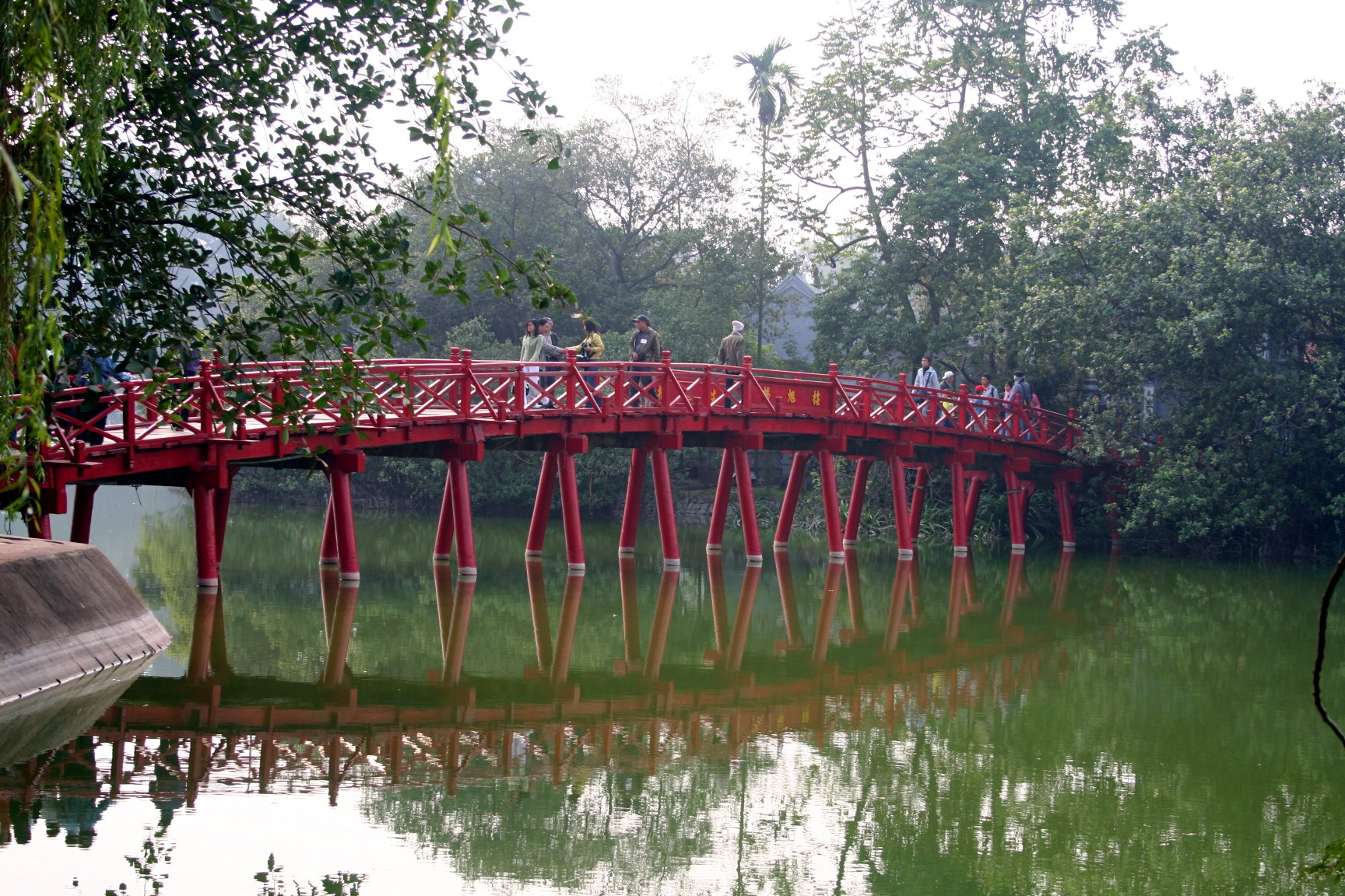 Photograph of Huc Bridge at Hoan Kiem Lake in Hanoi, Vietnam.